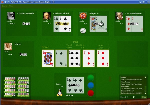 Screenshot of the software PokerTH which was written by myself.